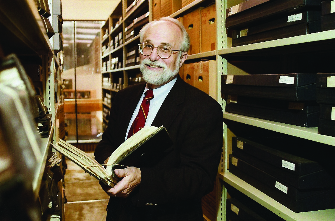 Edward C. Papenfuse, Maryland’s chief archivist, admires the Zarkovo system but has voiced concerns about military control. Visit